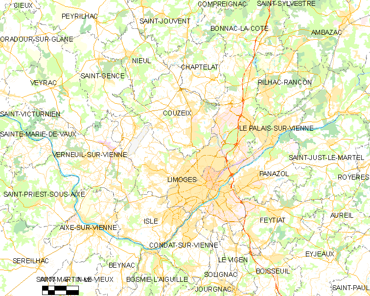 Map of French municipality Limoges